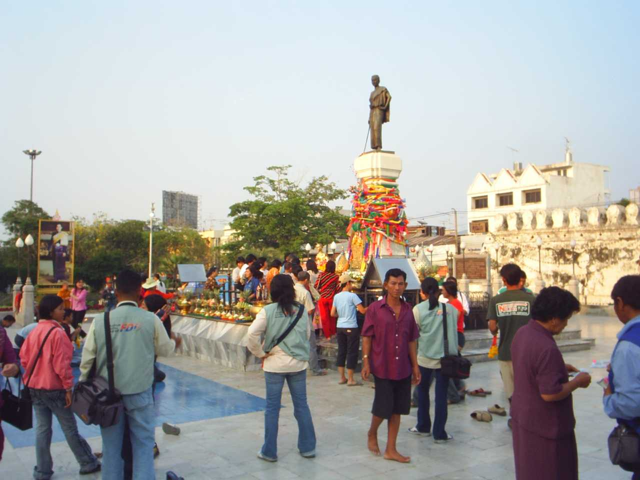 statue of Thao Suranaree in Nakhon Ratchasima; photo taken by User: Markalexander100 27/2/05 ファイル:Suranaree.jpg